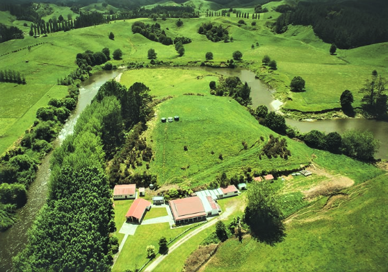 The Marae Complex and the Pukehou Block are nestled between a bend in the Upper Waitara River. This is the Headquarters of Ngati Maru Wharanui.